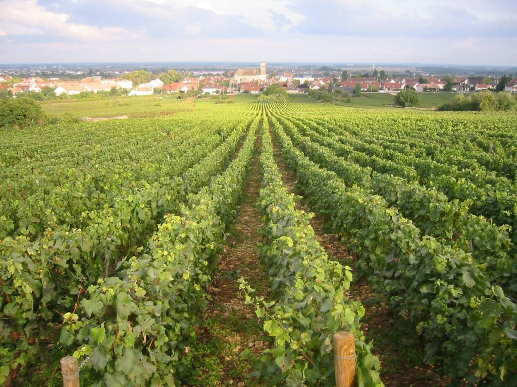 Vines in Marsannay, Burgundy